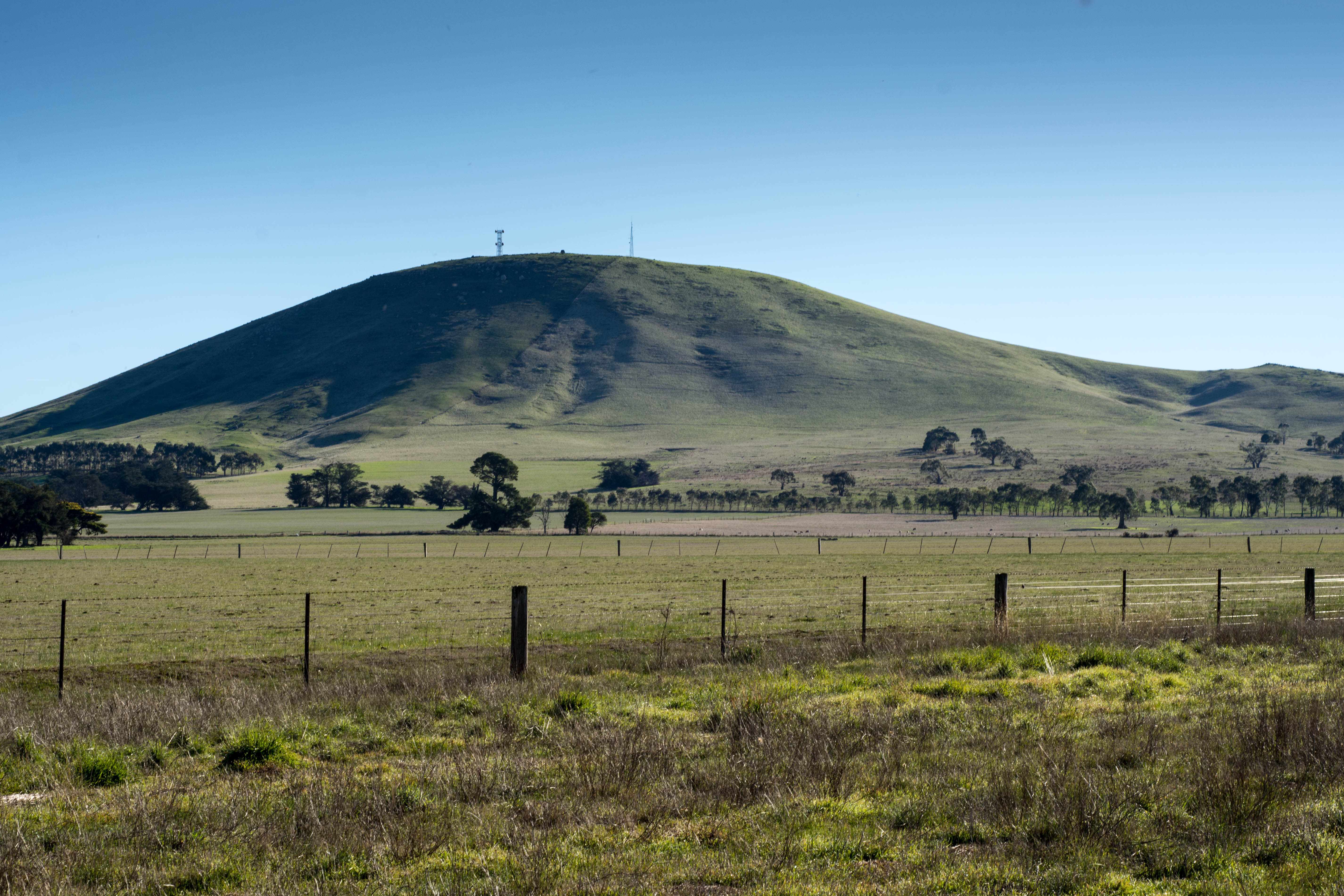 Mount Kooroocheang, a dormant volcano, near Smeaton, Victoria, Australia. This view is from the southern side, near the village of Kooroocheang.